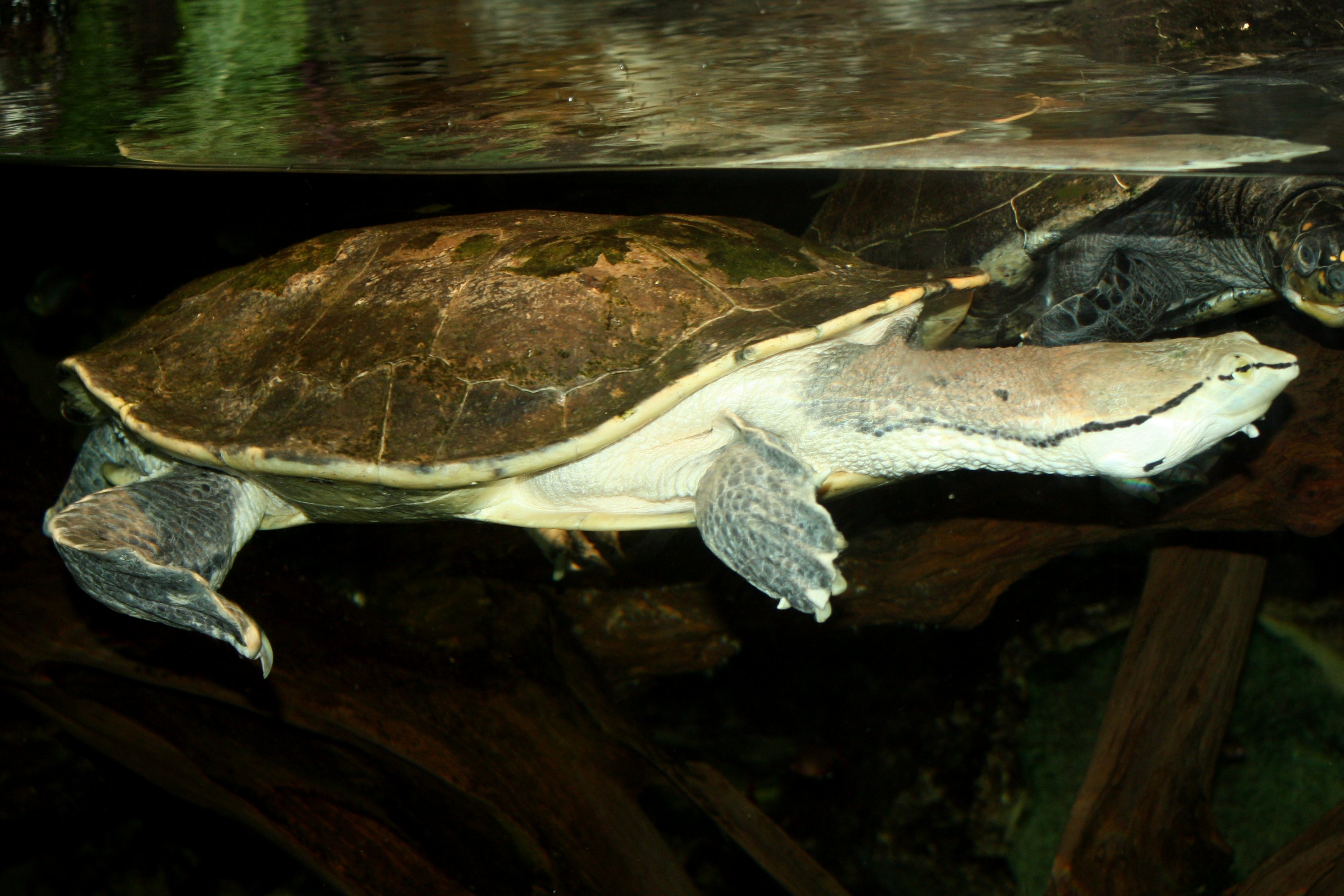 Spot Bellied Side Necked Turtle "Phrynops hilarii" at Nashville zoo